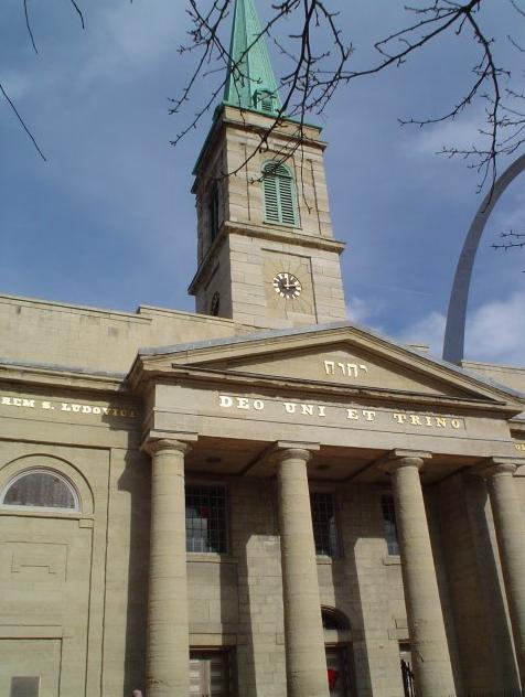 This is the exterior of the Basilica of St. Louis, King of France, or the Old Cathedral. It is located in downtown St. Louis, Missouri near the Gateway Arch. Part of the Arch is visible behind the steeple. It was built at 1834 and at the top of its front is written the Tetragrammaton (Jehovah/Yahweh).